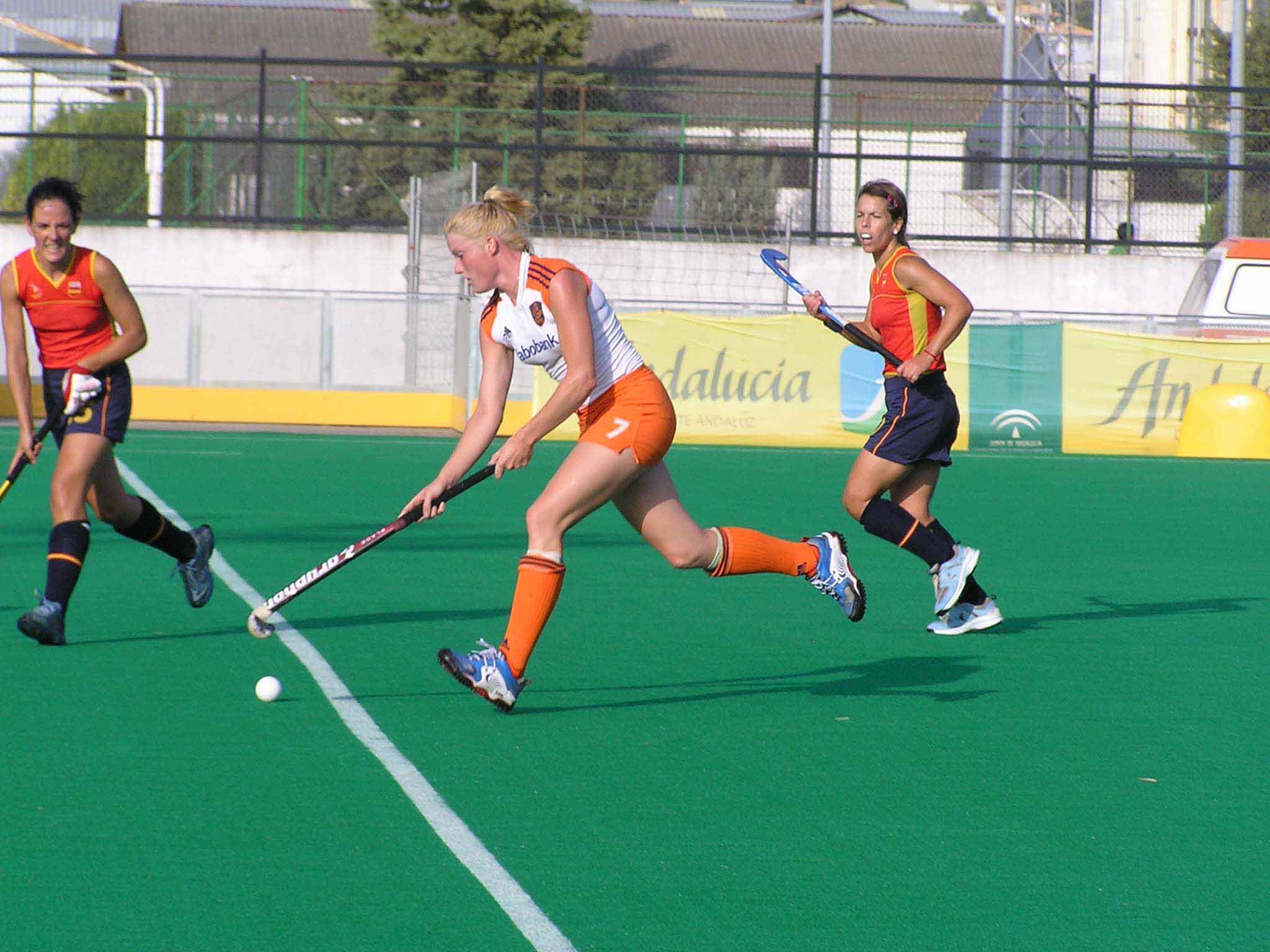 Dutch player Miek van Geenhuizen in a field hockey match against the Spanish national team.